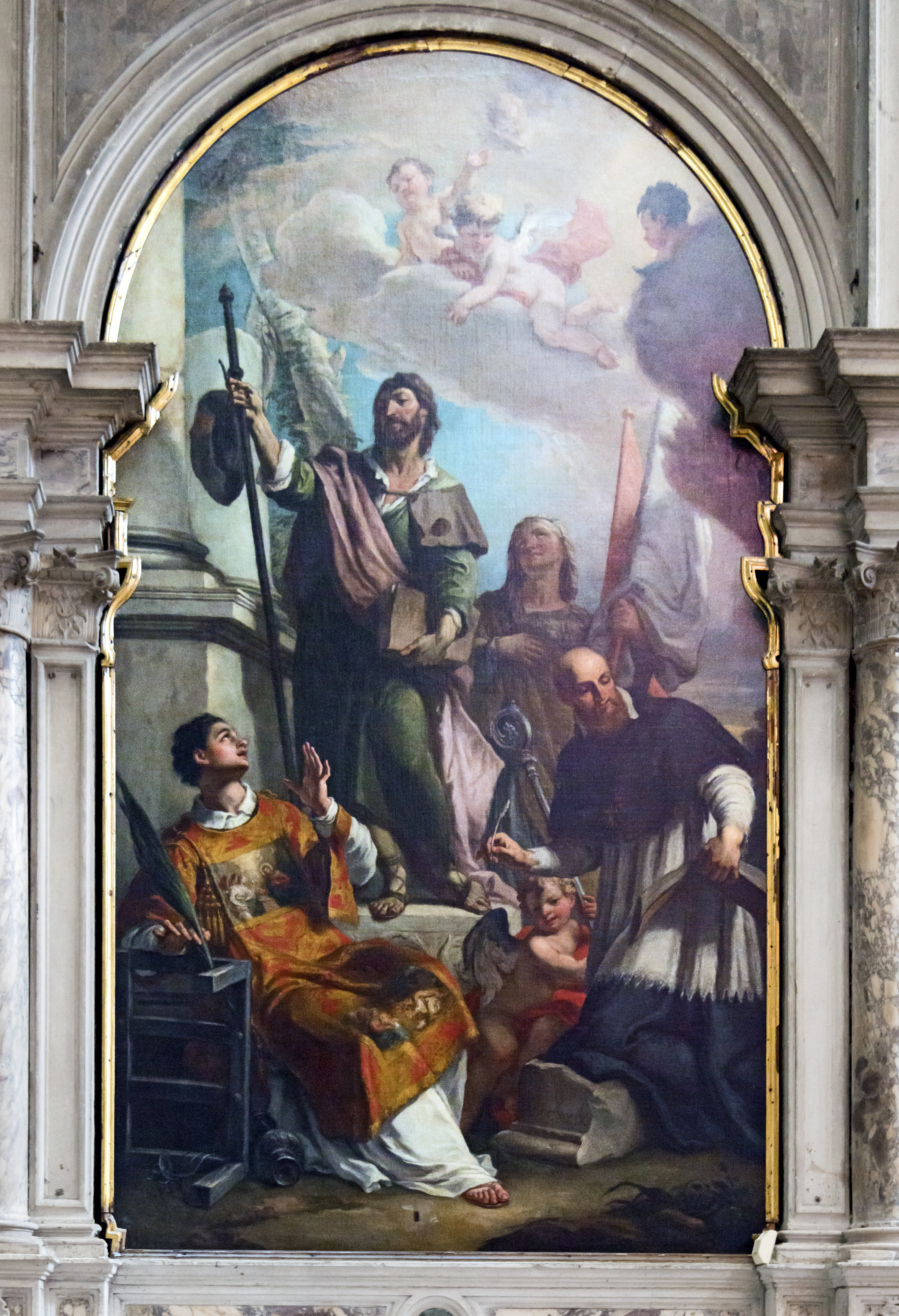 Church of San Salvador, in Venice. "The Apostle James between Saints Lawrence, Mary Magdalene and Francis de Sales" by Girolamo Brusaferro.